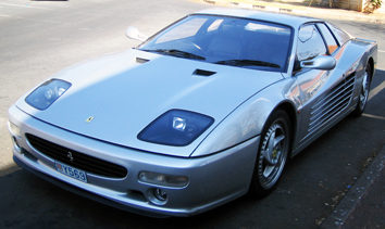 Photo of own car of mine, author